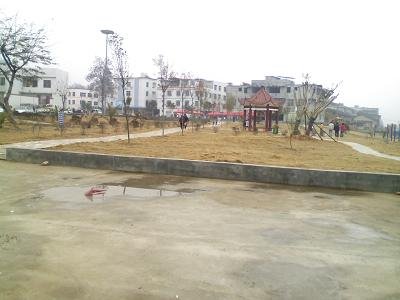 稔田镇新貌